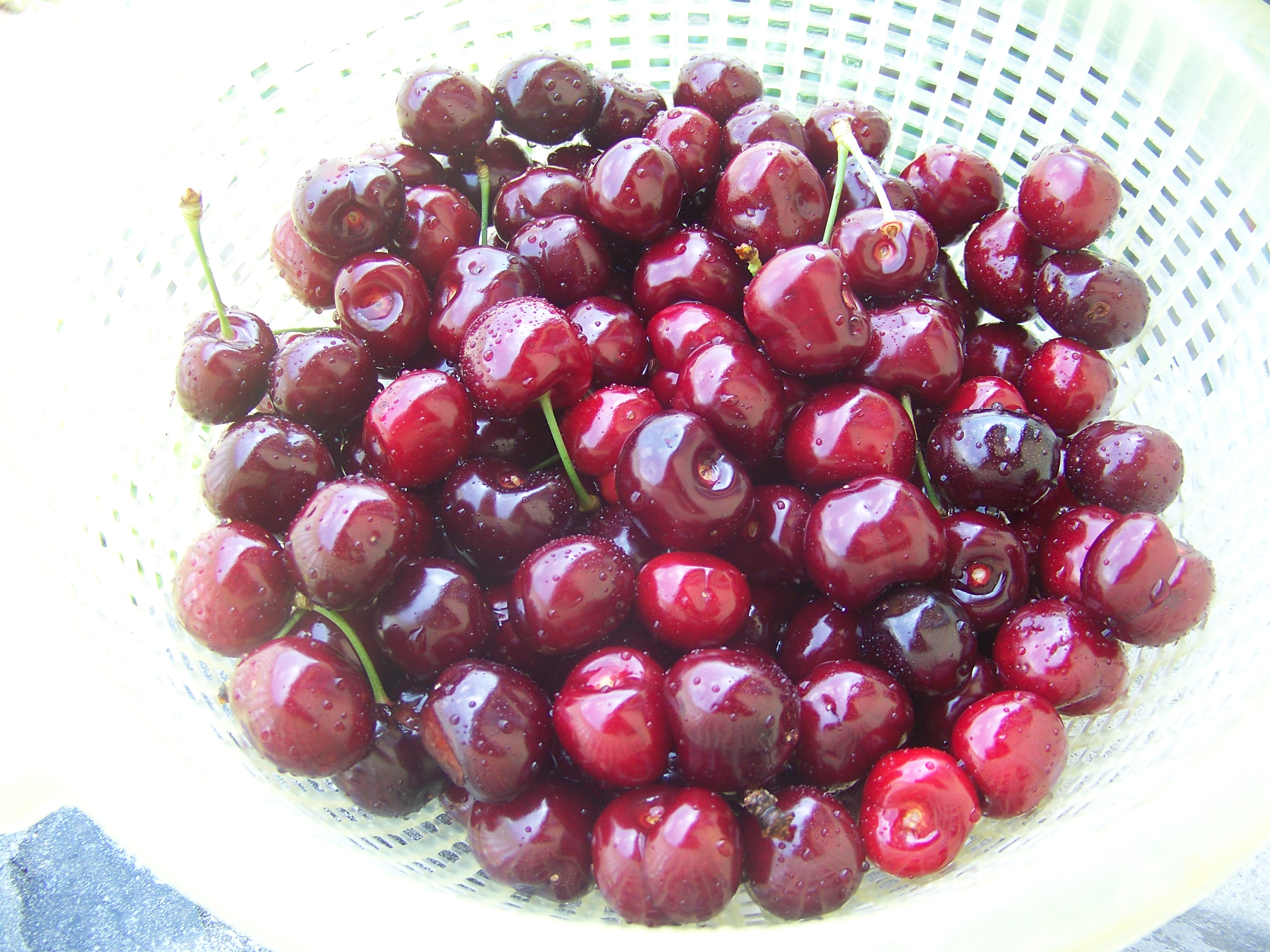 А photo of plate of cherries